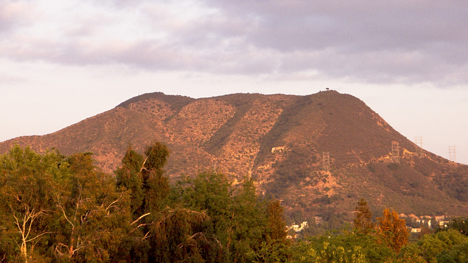 Cahuenga peak (left) and Burbank peak (right, with solitary tree) viewed from the northwest around sunset on an overcast day.